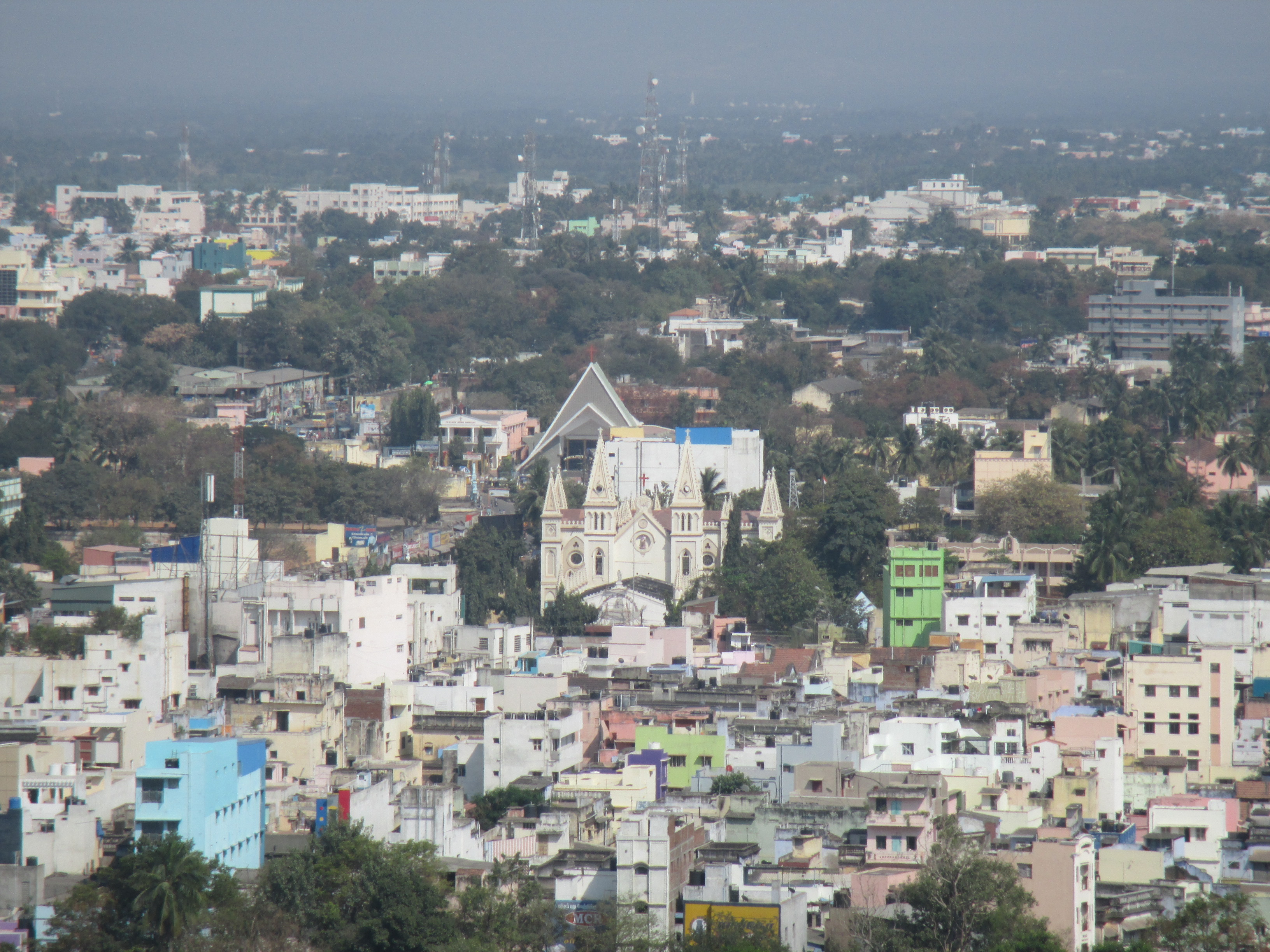 Dindigul